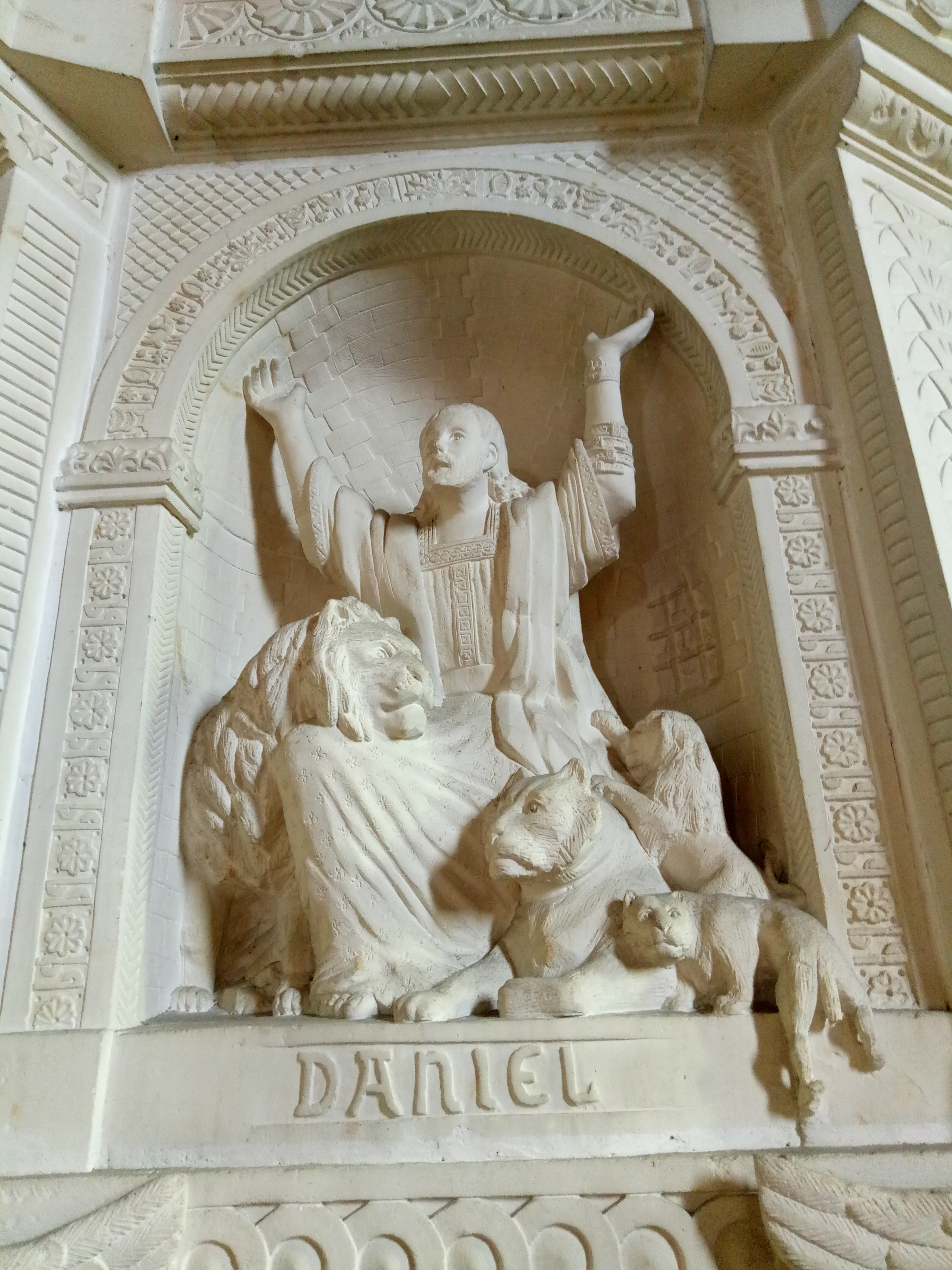 Detail of the pulpit of the church of Sainte-Croix, in Saint-Gilles-Croix-de-Vie, in Vendée (France), showing Daniel beseeching God in the middle of lions. The pulpit was created by Arthur Leon des Ormeaux in 1896.